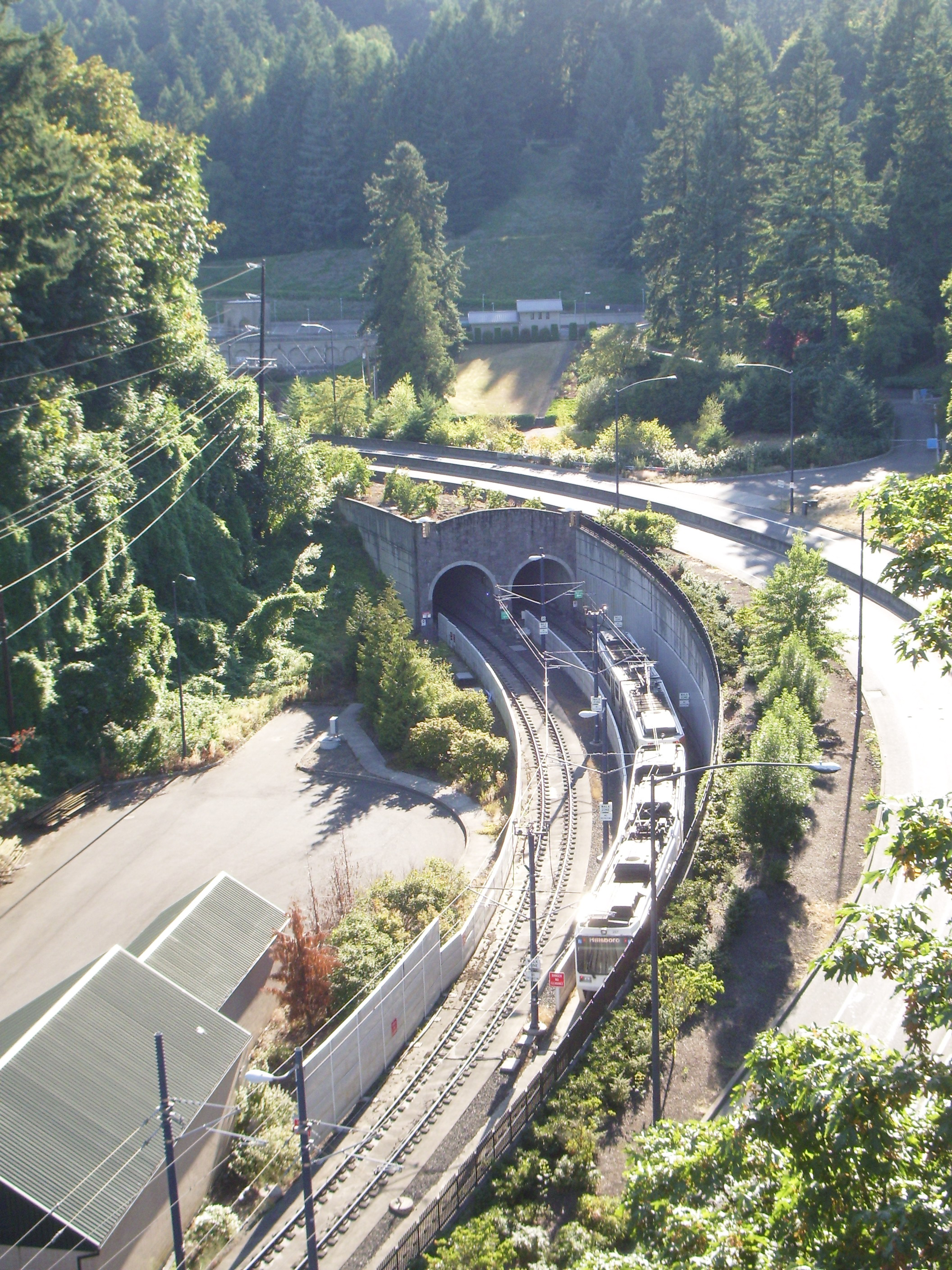 The east end of the Robertson Tunnel, Portland, Oregon with a westbound MAX Light Rail train about to pass under Canyon Road/Jefferson Street as that road joins with Sunset Highway (off frame left). Washington Park covers the hill above. The building at lower left is a substation to supply power to the east end of the tunnel.